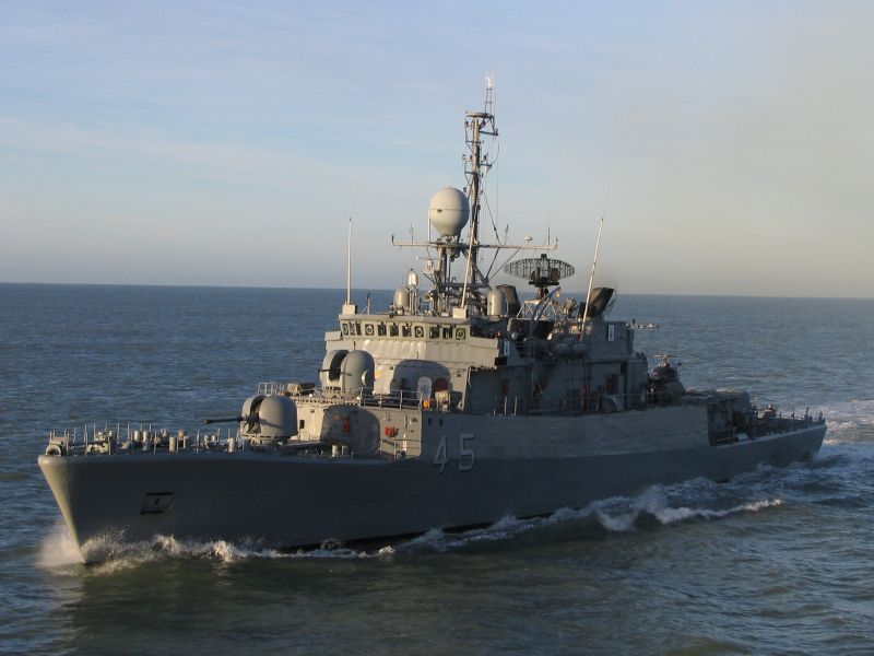 Misilistic Corbete Meko140 (P-45) ARA "Robinson" Martín Otero Near Base Naval Mar del Plata July, 2005